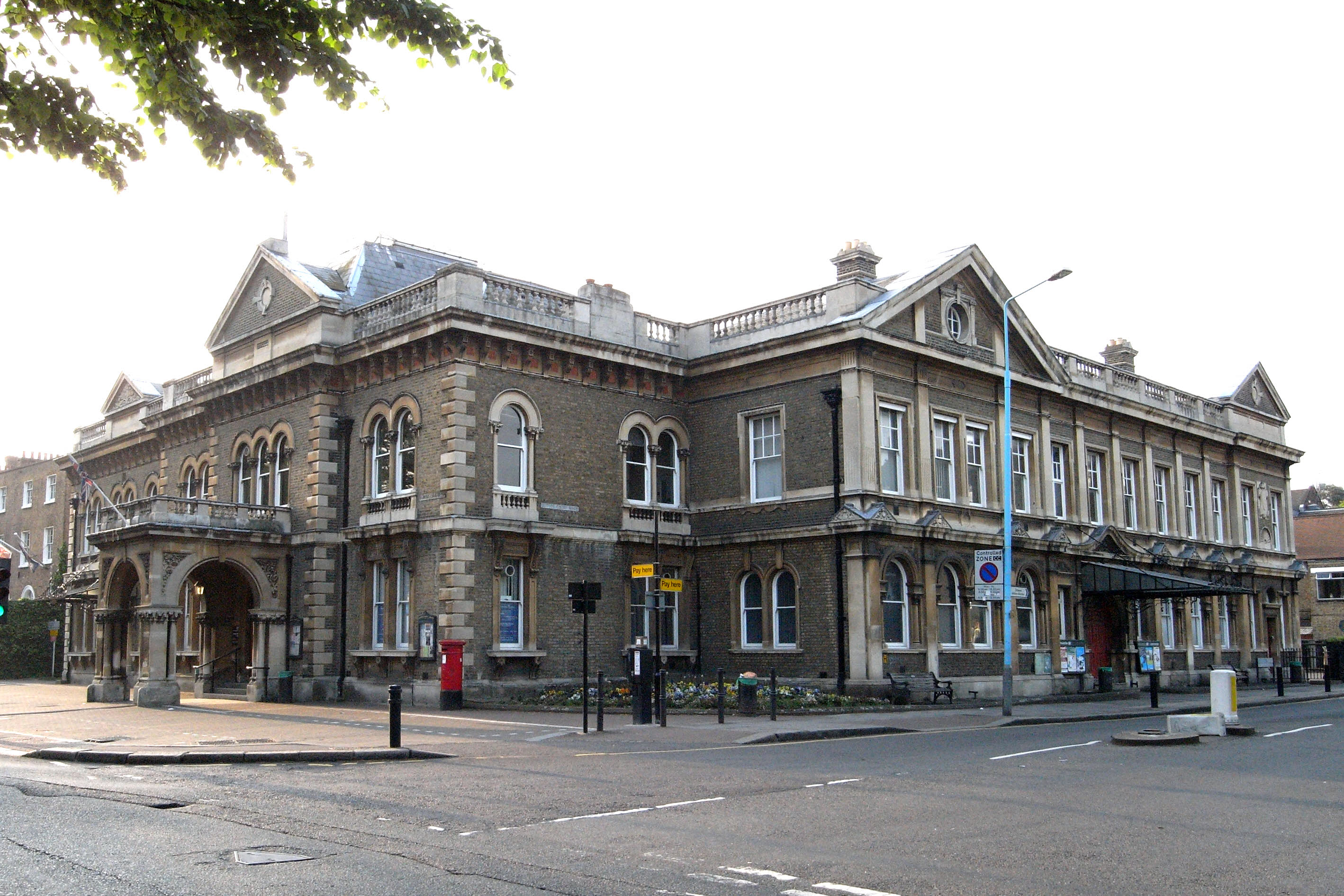 Chiswick Town Hall in London W4. Shows the north- and west-facing elevations.